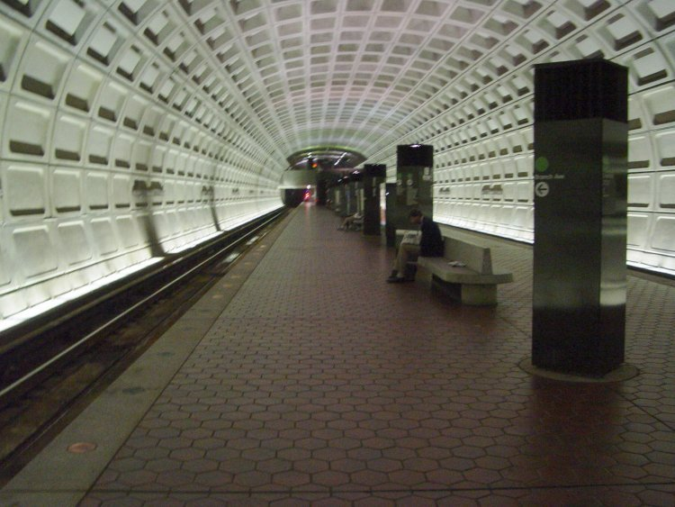 Navy Yard station